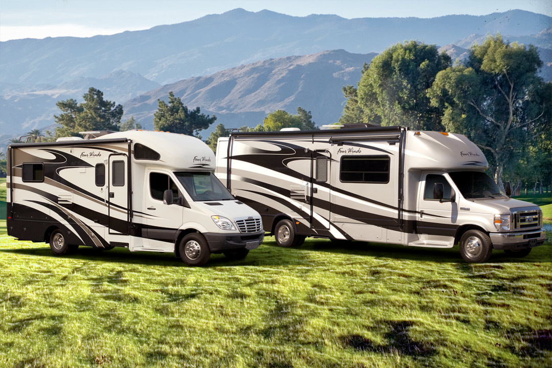 Thor Motor Coach Four Winds Class C Motorhome